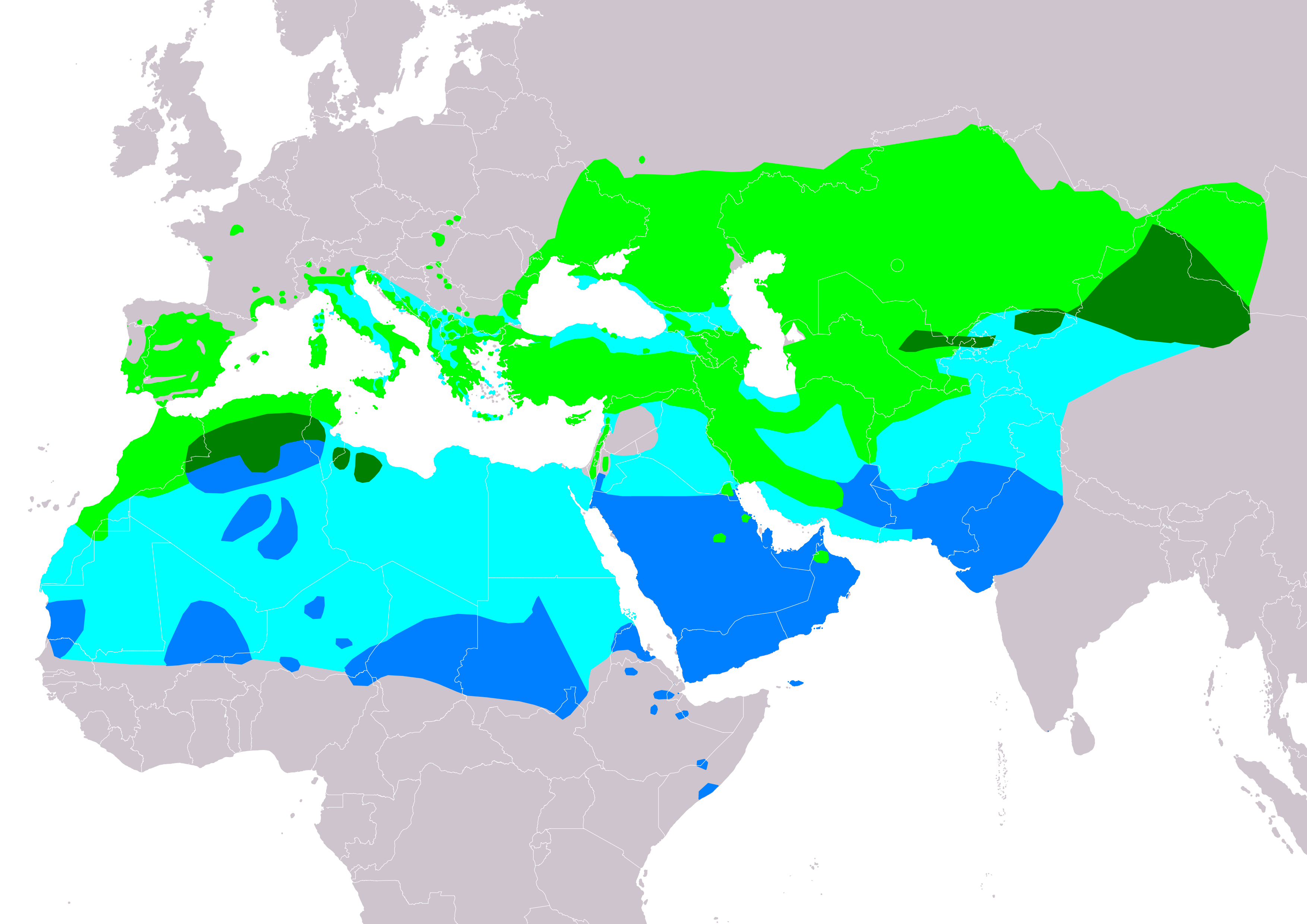 distribution map of greater short-toed lark (Calandrella brachydactyla) according to IUCN version 2019-2 ; key: Legend: Extant, breeding (#00FF00), Extant, resident (#008000), Extant, passage (#00FFFF), Extant, non-breeding (#007FFF)